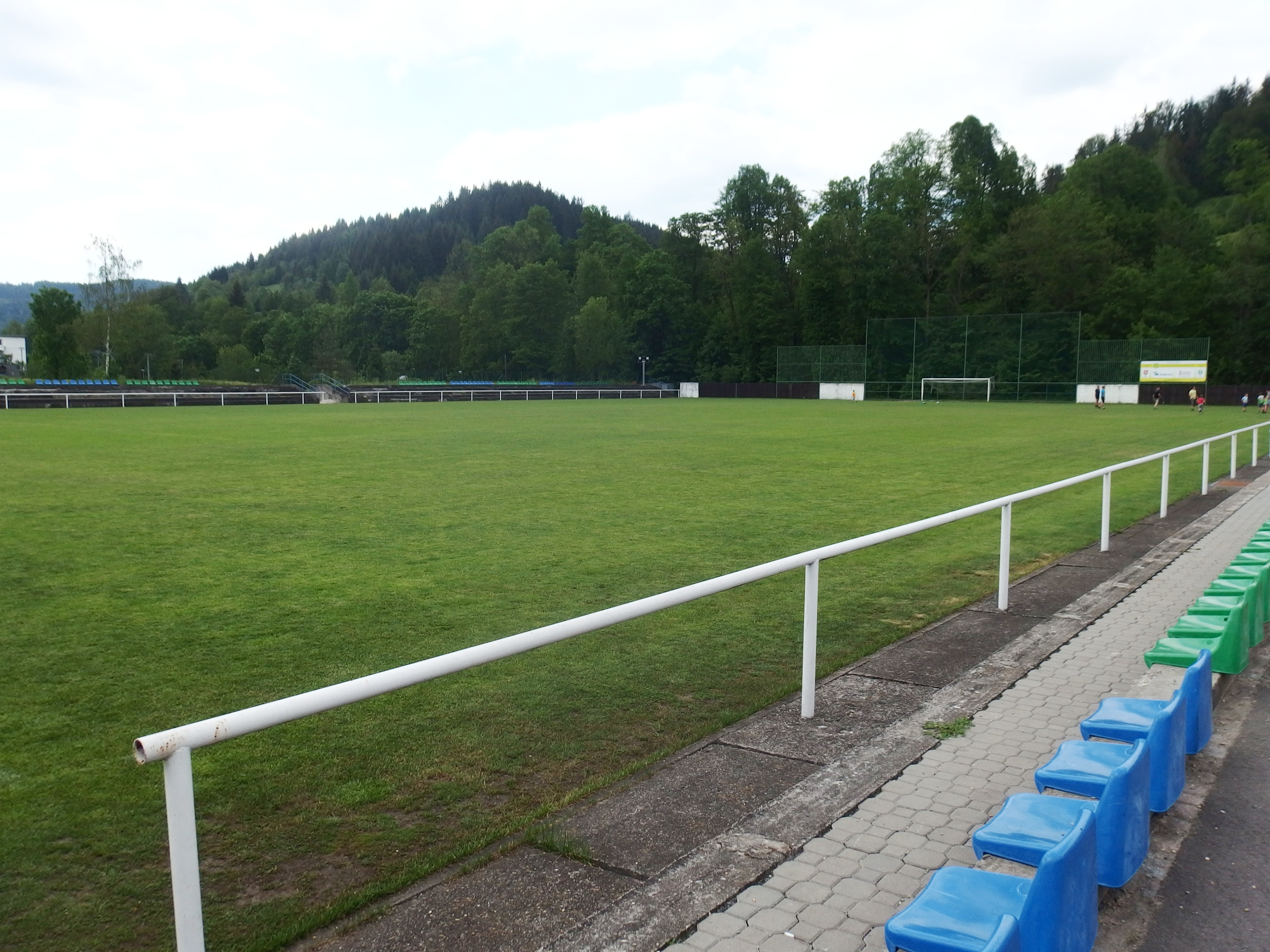 Karolinka, Vsetín District, Czech Republic.